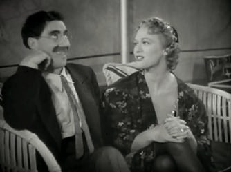 Groucho Marx and Eve Arden in At the Circus (1939) - trailer (cropped screenshot)